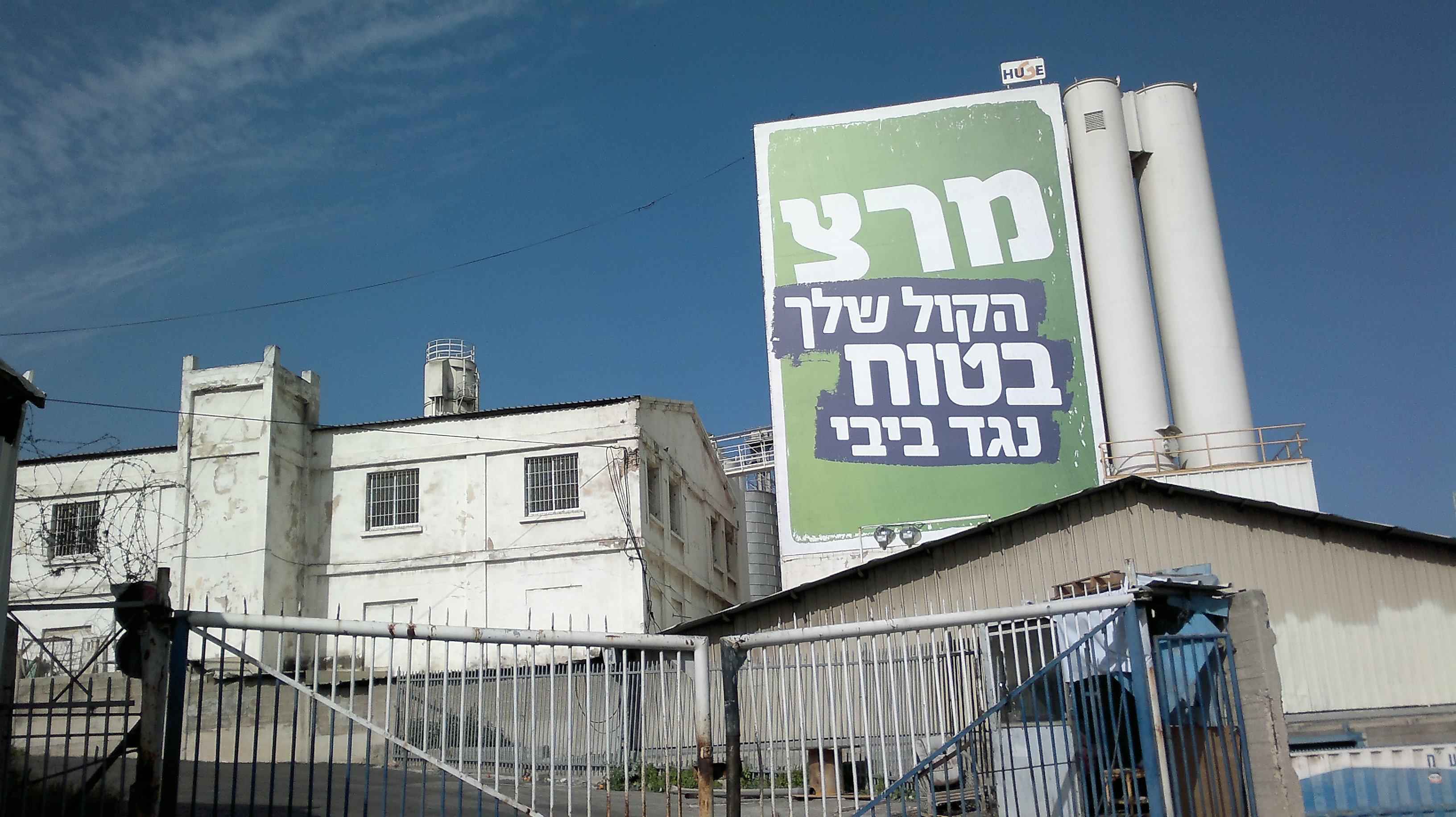 כרזת בחירות של מרץ מבחירות 2013